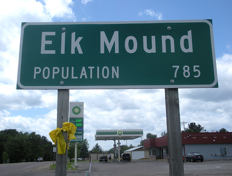 Entrance sign for Elk Mound, WI.